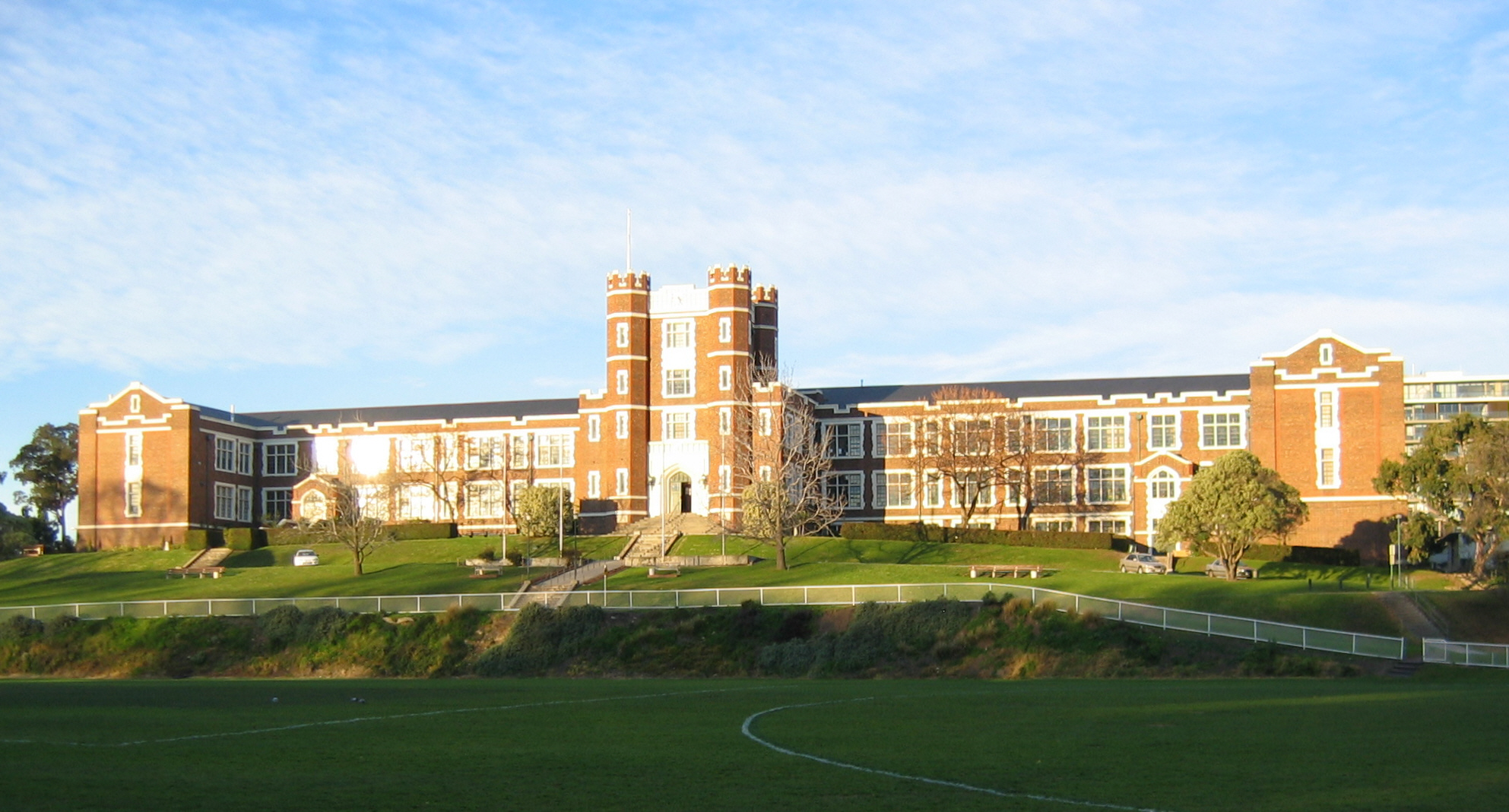 Photo of Melbourne High School, Victoria, Australia